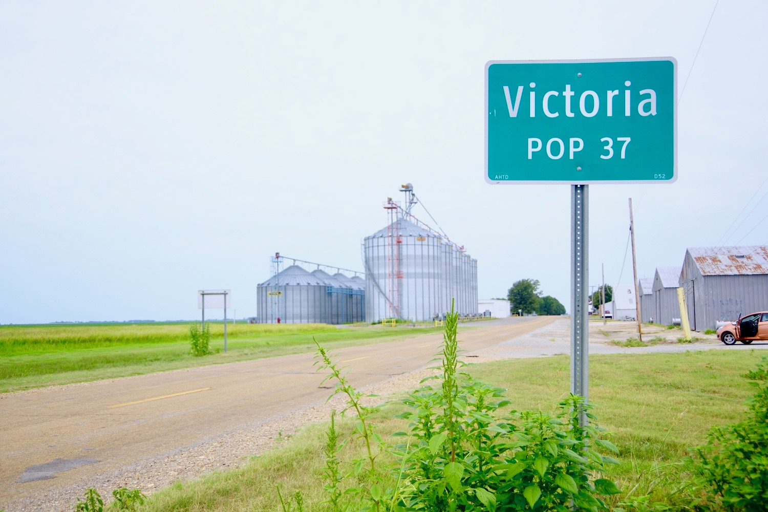 Entrance to Victoria, Arkansas, United States, along Arkansas Highway 158.